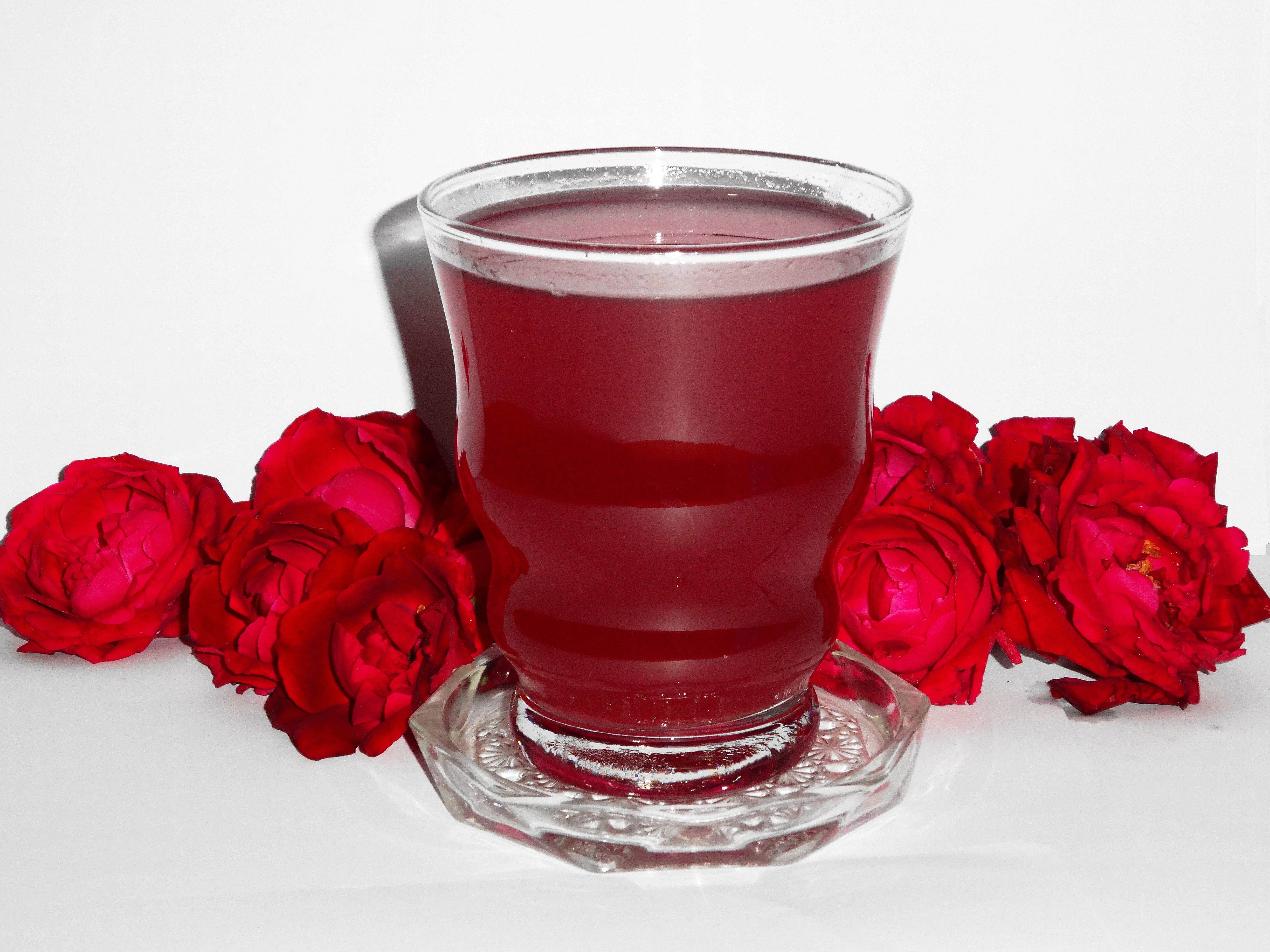 100% Pure Rose Syrup فیصد خالص گلاب کا شربت